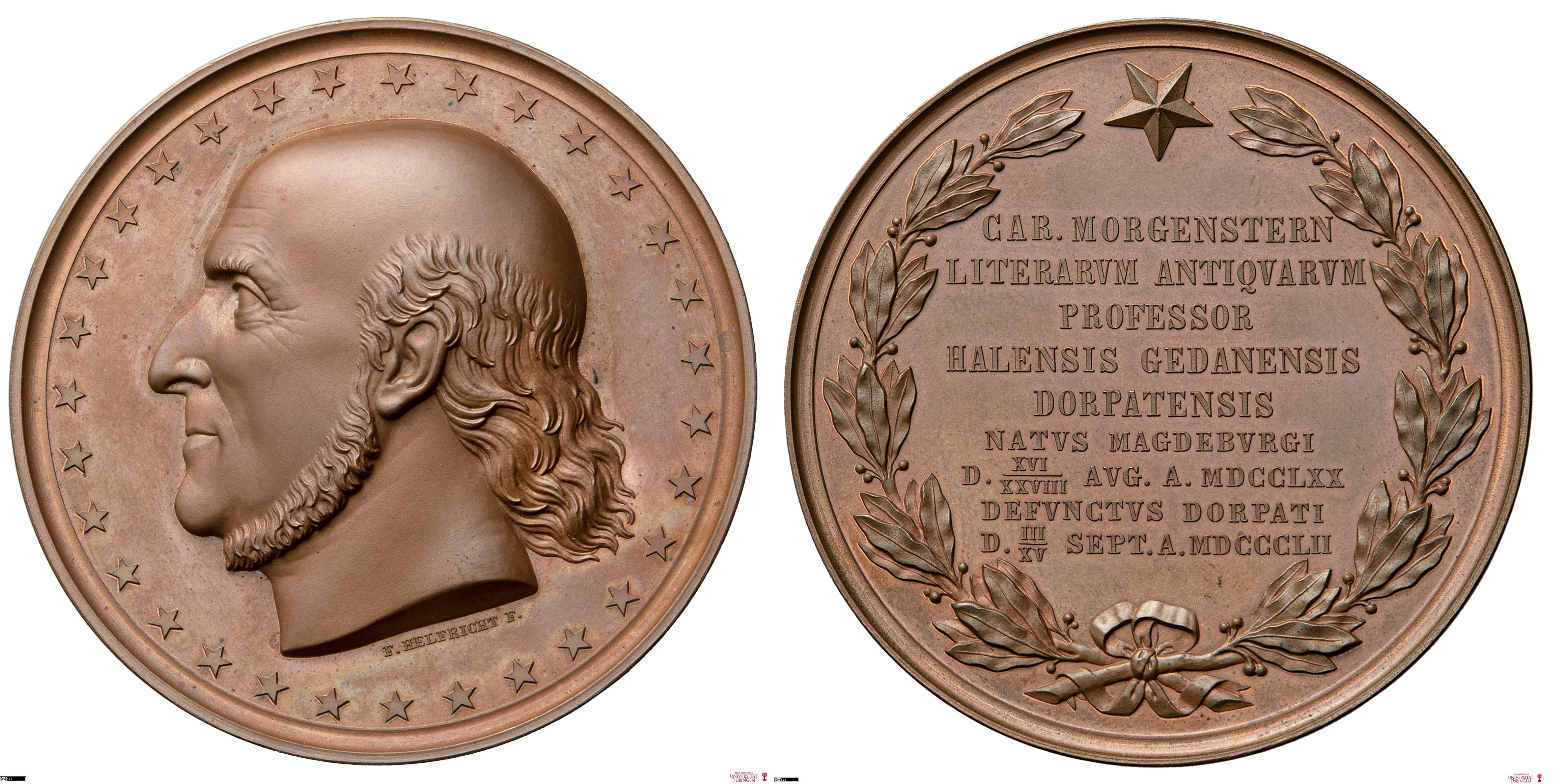 The front side depicts a bust of Morgenstern surrounded by stars. The engraver Ferdinand Helfricht signed below the bust. The back side lists his profession, places where he taught and his date of birth and death. These are enclosed by a laurel wreath and a star.